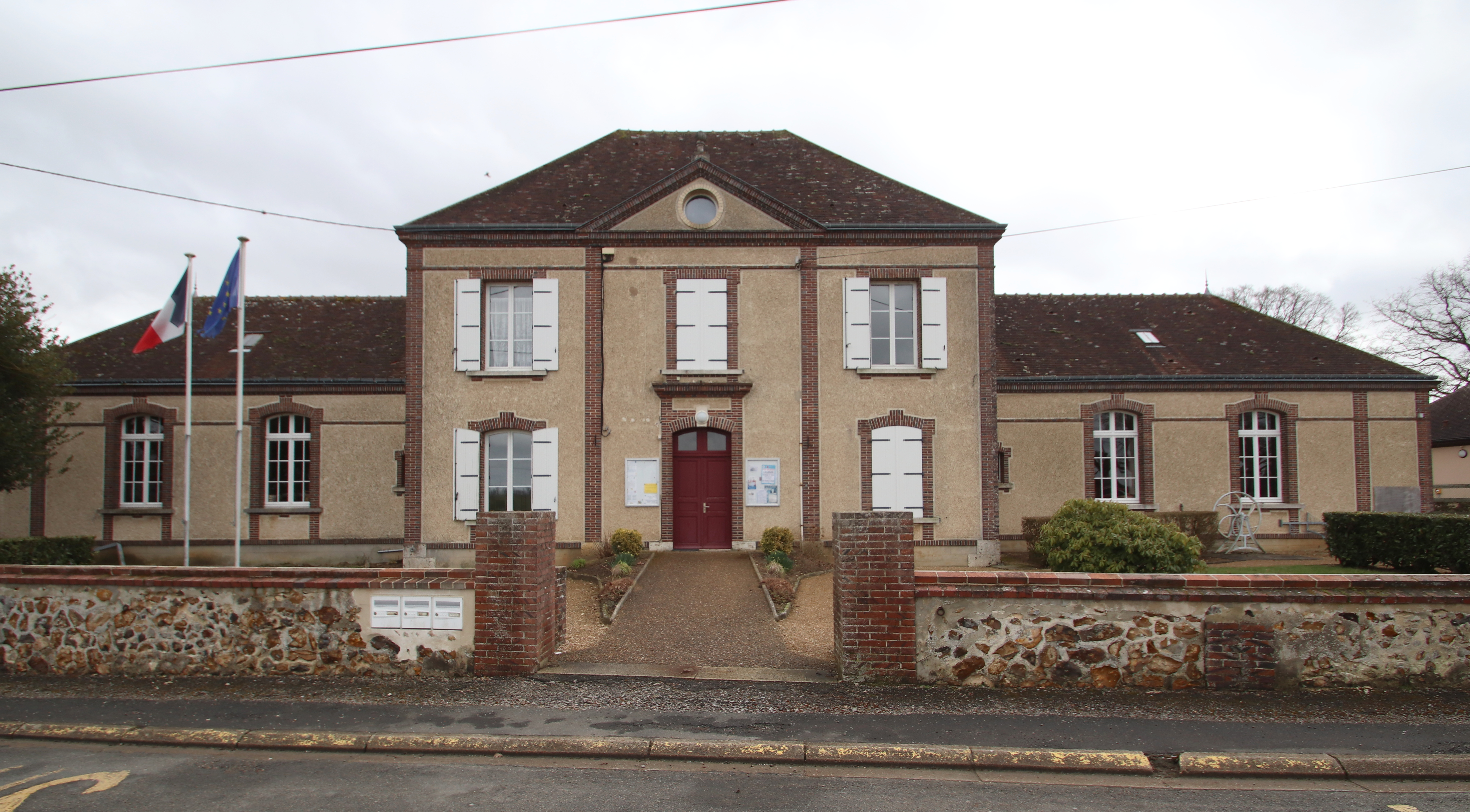 Town hall of Vaupillon, France. Object location48° 27′ 34.34″ N, 0° 59′ 35.27″ E